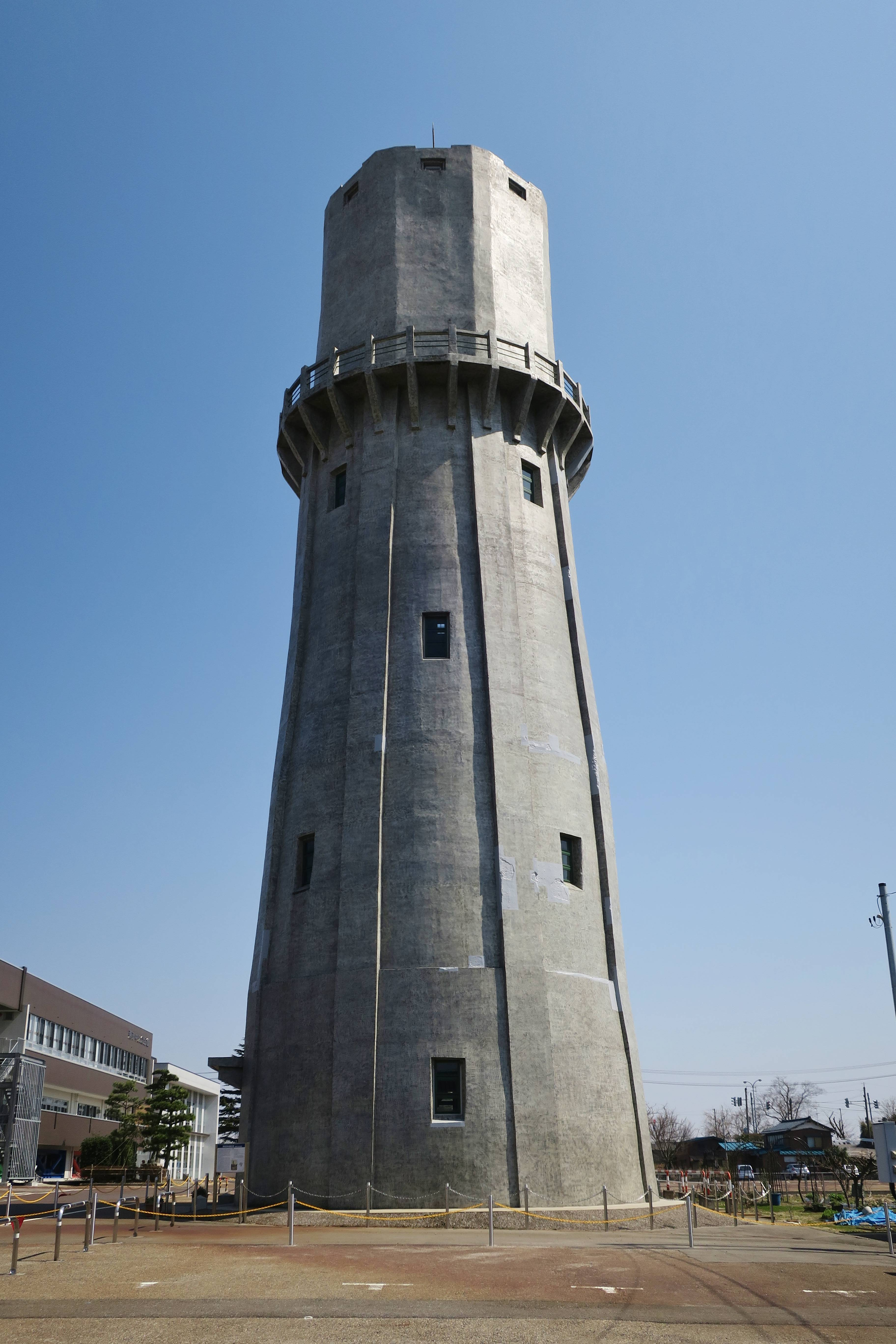 Tsubame city former water tower.